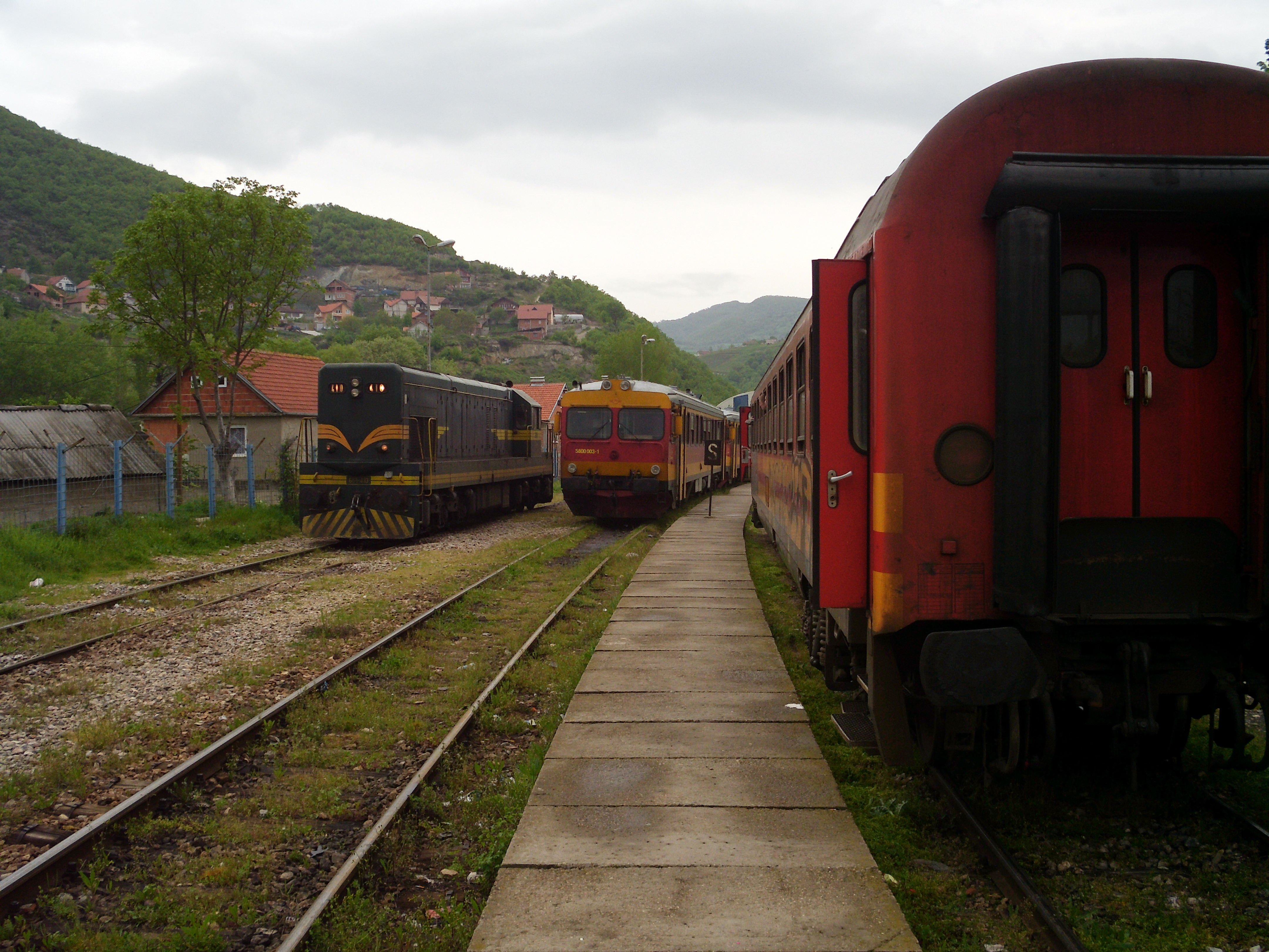 Two passenger trains and one diesel engine in the border station Han i Elezit (Đeneral Janković), Kosovo. The train at the right arrived from Macedonia and terminates here; the railcar one in the middle continues to Priština.